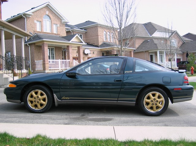 1993 Plymouth Laser RS with Gold Appearance package